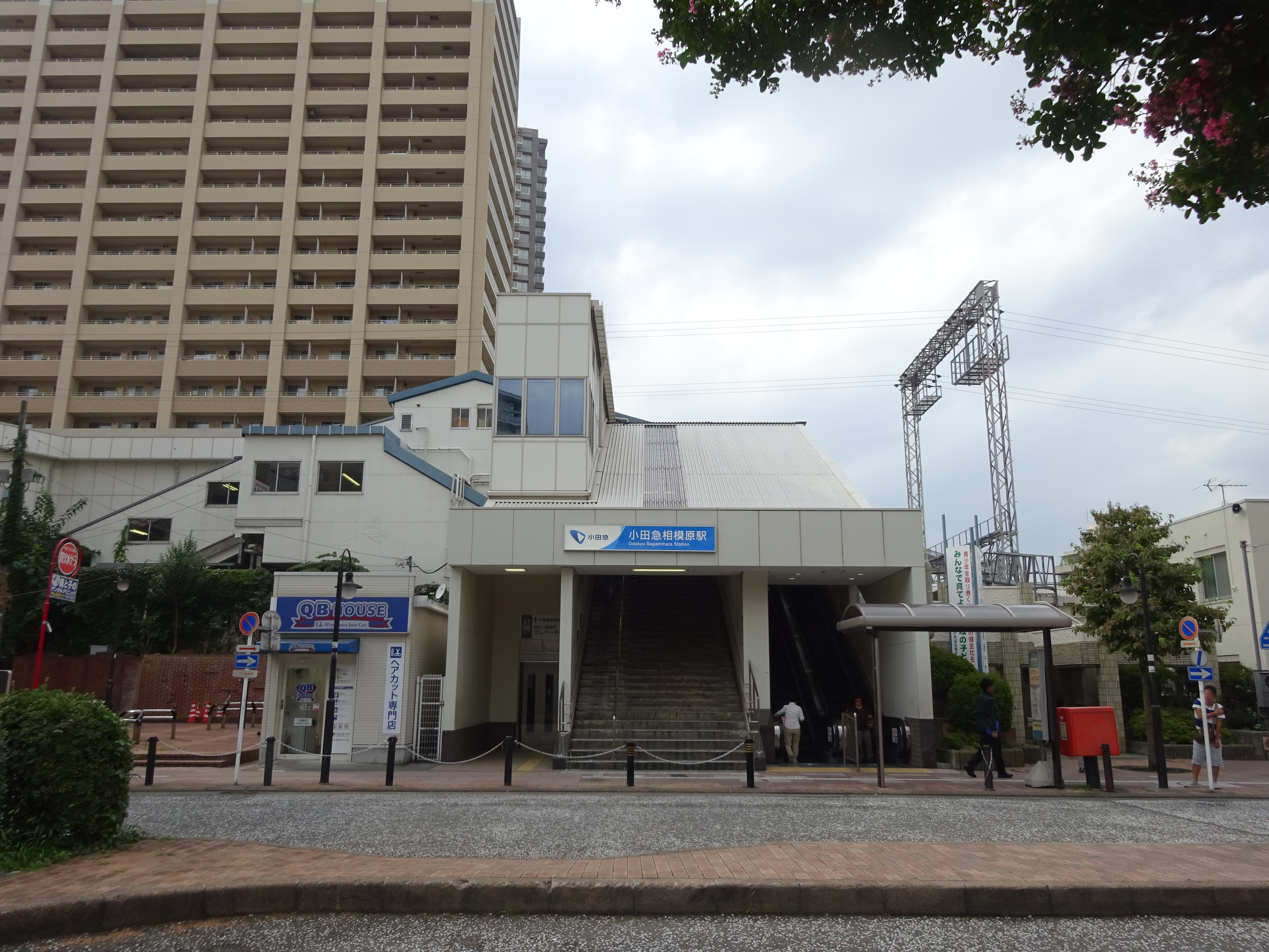 South Entrance of Odakyū-Sagamihara Station